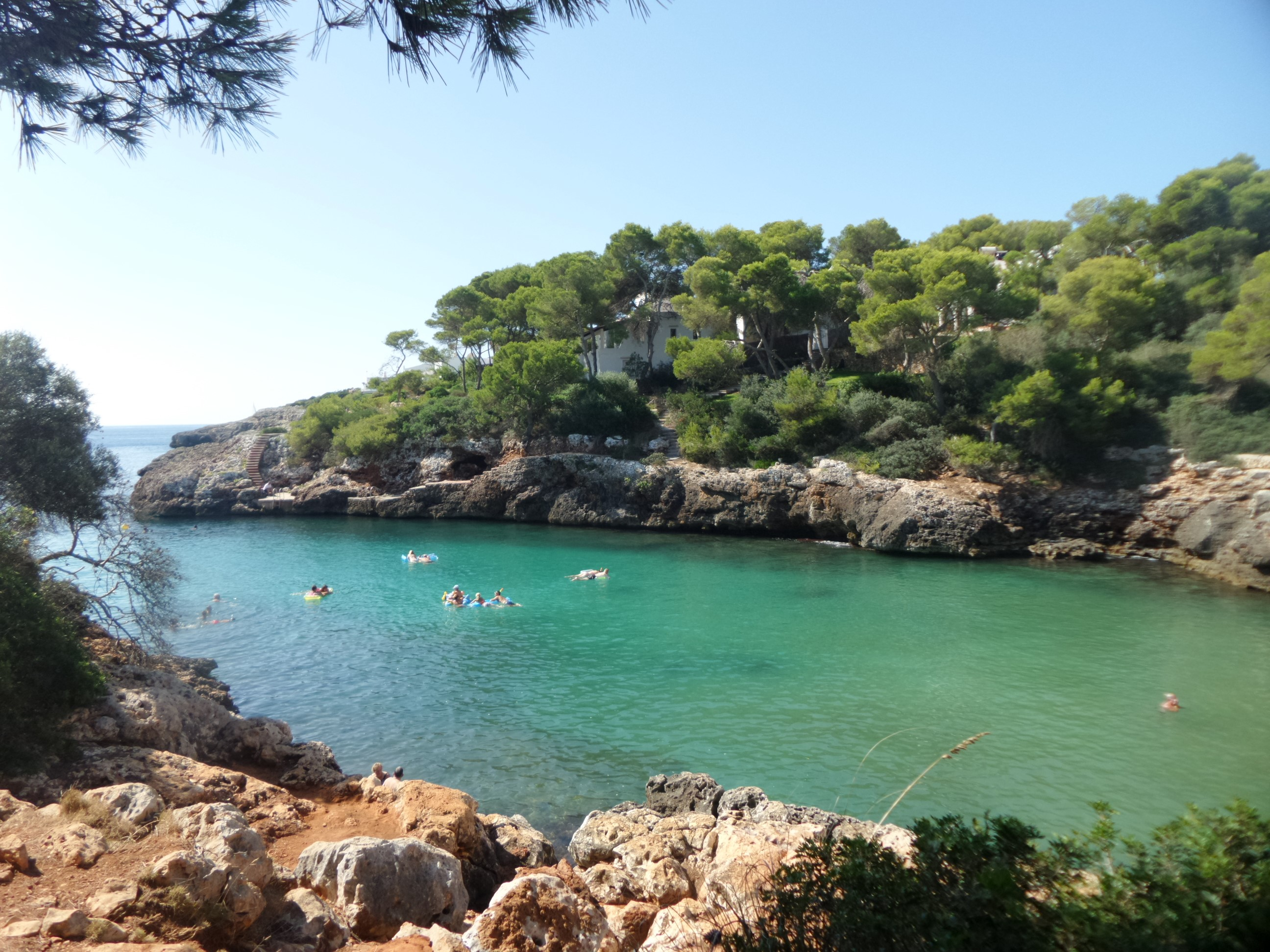 Cala Egos (Bay) in Cala Egos (Residential Area) von Cala d'Or (Township)